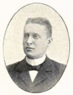 Swedish lawyer Herman Sundius (1866-1948)